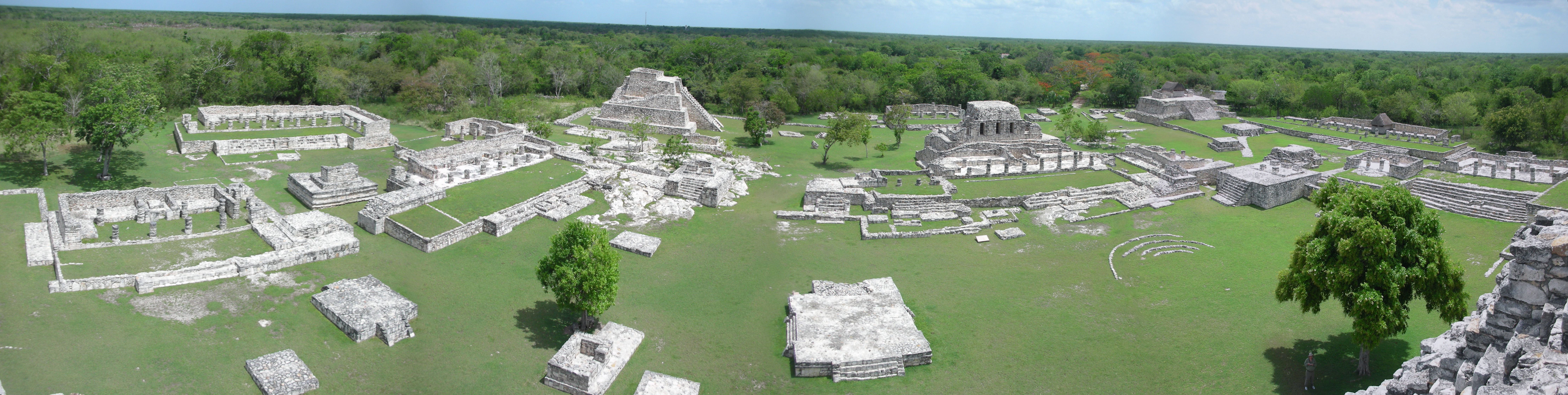 Mayapan: Panoramic view from Kukulcan temple